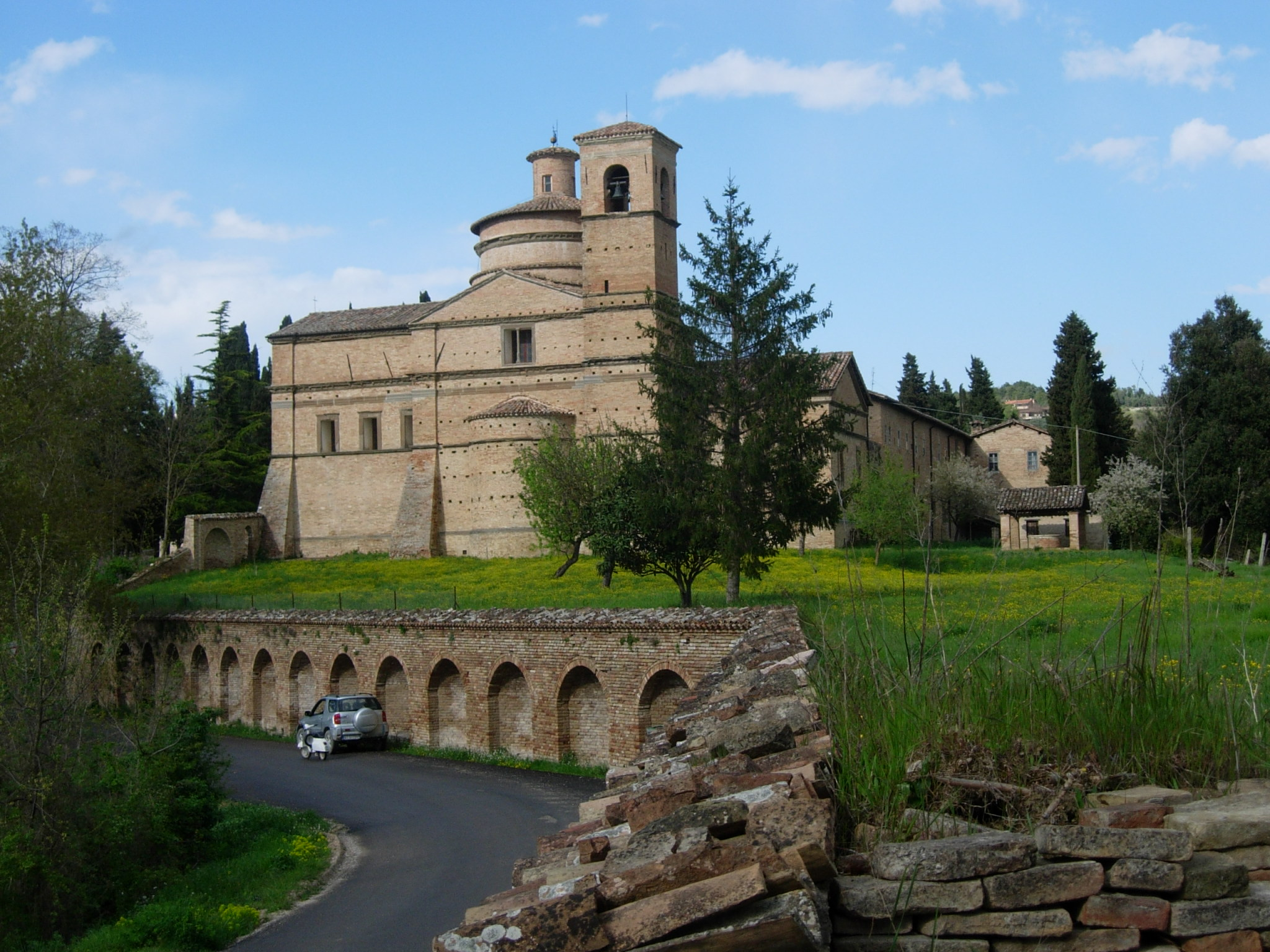 San Bernardino Church, near Urbino (Italy).